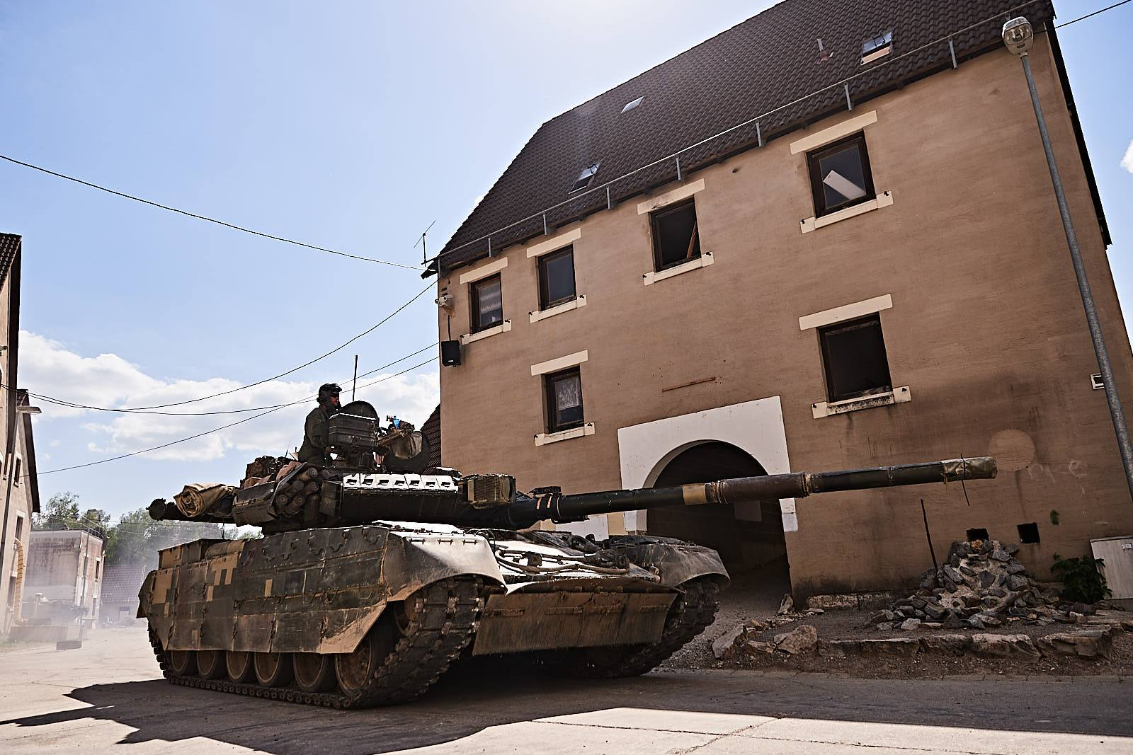 Ukrainian T-84 main battle tank holding position in the city during "Combined Resolve. X" military excercises